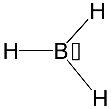 BH3 with lacune